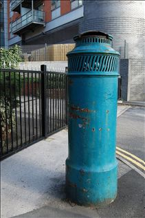 "Soapy Joe's Shaft", Whitehall Road, Leeds. A ventilation shaft of the former Leeds Electricity Department's sub-station. Ventilated a tunnel from Whitehall Rd north under Northern St, Queen St, to the Headrow sub-station. Known as "Lucy Boxes" as manufactured by Lucy Foundry, Oxford. 2 or 3 others remain in Leeds, one named "Queenie's Shaft". Named due to its proximity to the soap factory of Joseph Watson & Sons, Whitehall Soap Works, known locally as "Soapy Joe's". Legend in high-relief: "DANGER. High voltage sub-station. City of Leeds Electricity Department, 1 Whitehall Road, Leeds".